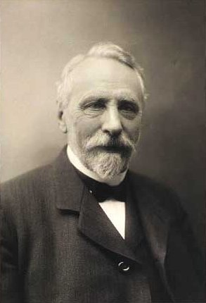 Danish numismatist Peter Christian Hauberg (1844-1928)